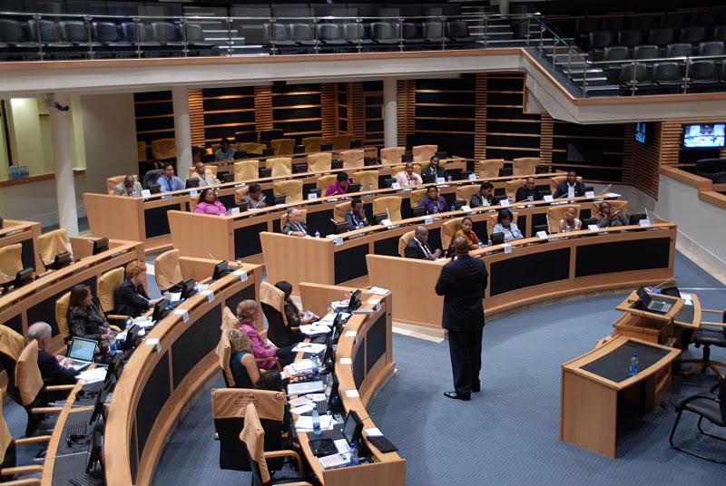 NSCL team's workshop with South African provincial legislators. Photo taken Sen. Roberts' trip for an NCSL conference.